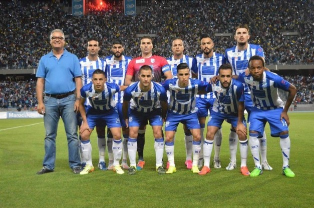 Team in the season 2016-15 of Botola Pro